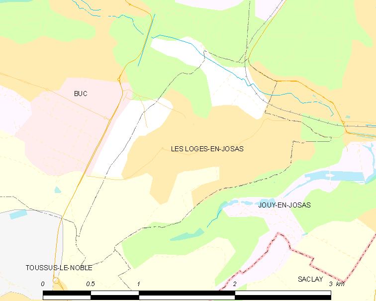 Map of French municipality Les Loges-en-Josas